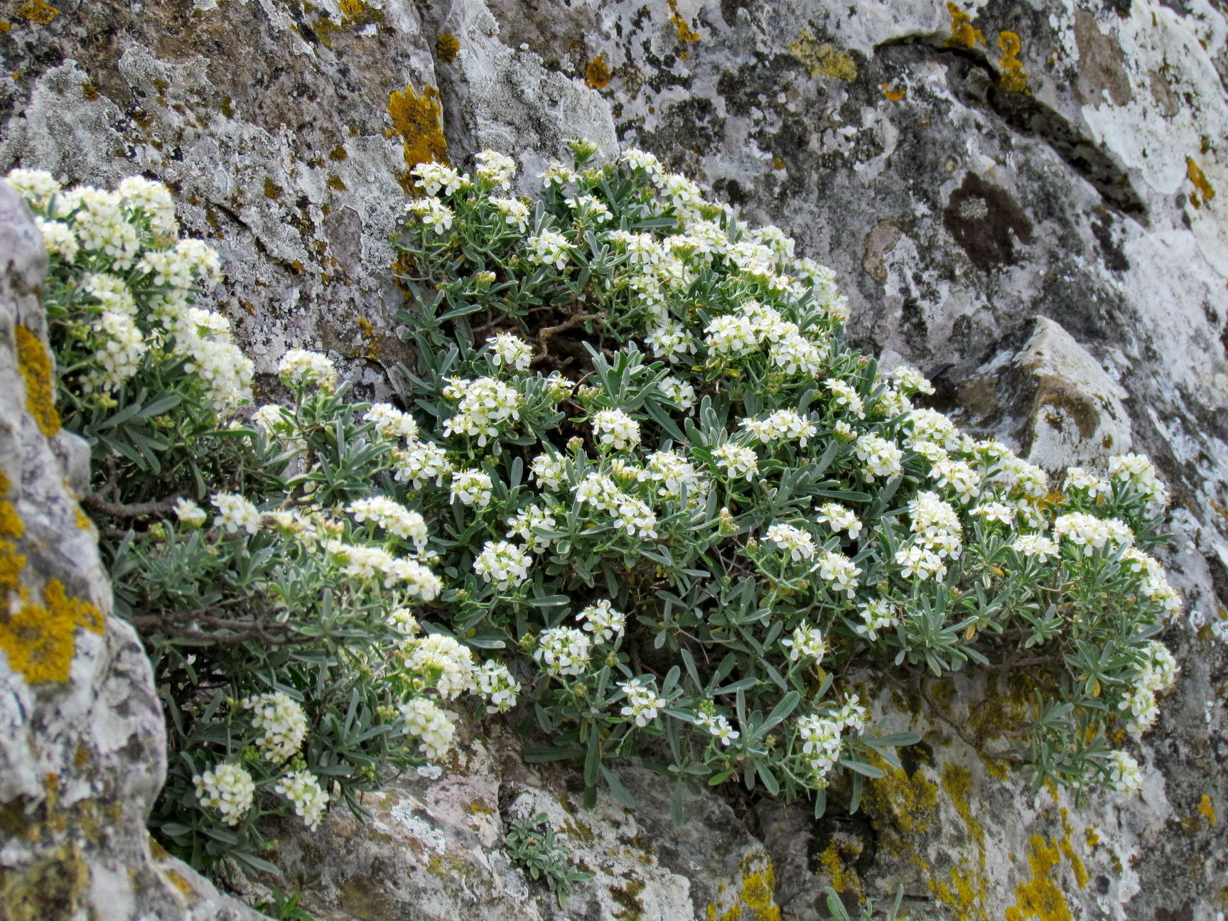 Hormathophylla spinosa, Pic Saint-Loup (Hérault, France). Habitus.